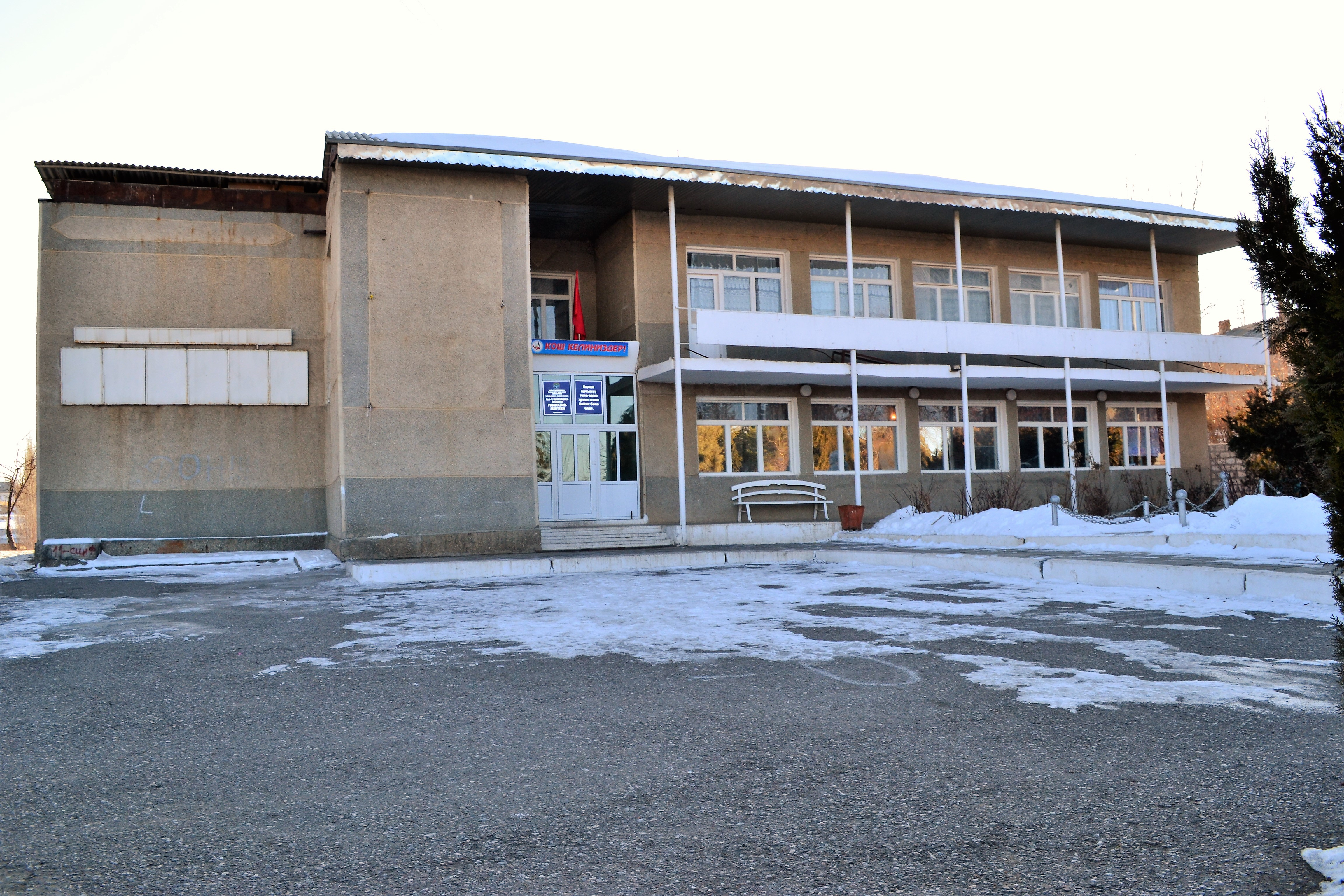 The building of the Uzbek Gymnasium in Isfana, Kyrgyzstan